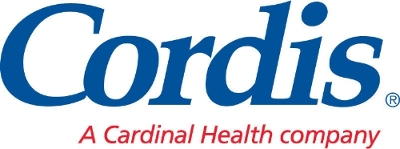 Cordis Corporation 2013 Logo